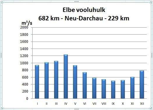 Elbe river hudro